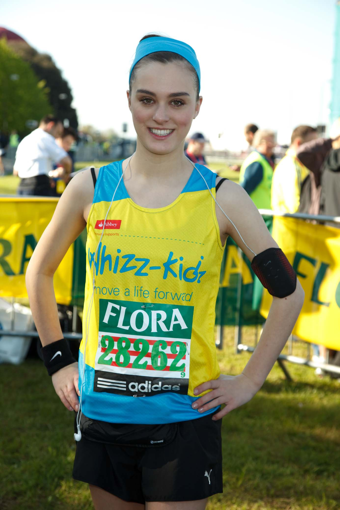 British actress Loui Batley pictured at the 2009 London Marathon. Loui was supporting UK charity Whizz-Kidz. Author of this image is Whizz-Kidz & Steve Hickey.